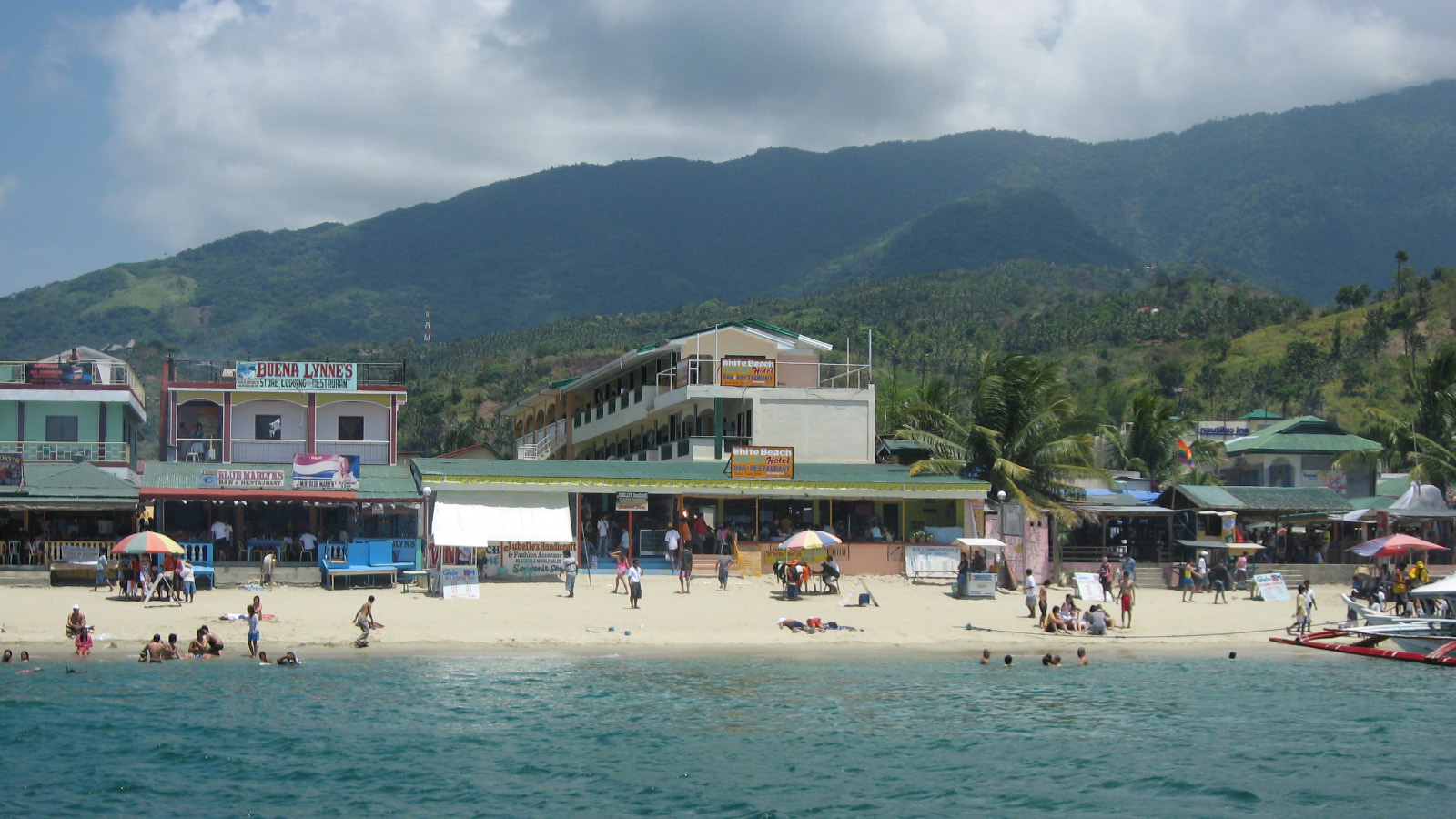 Photograph of the White Beach in Puerto Galera, Oriental Mindoro, Philippines from the sea (about 50 meters from the shore).